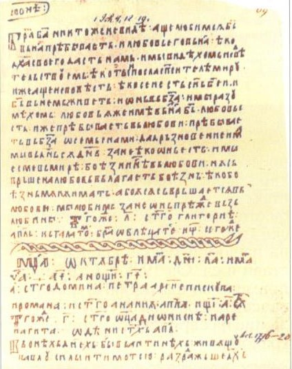 A page from the medieval Cyrillic manuscript from Macedonia